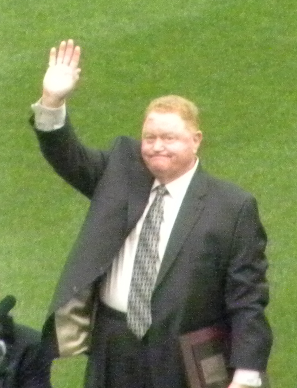 Former New York Mets player Rusty Staub before presenting Frank Cashen with his Mets Hall of Fame plaque. This file has been extracted from another file: Rusty Staub 2010.jpg